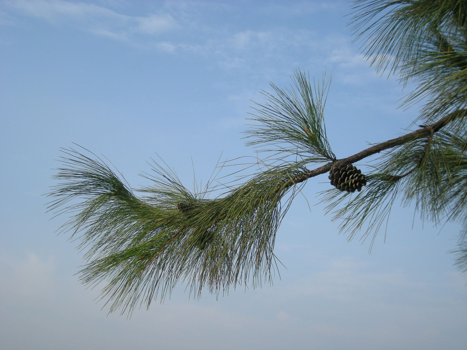 Pinus massoniana. The photo was taken in a hill of elevation about 200M in east of Jiangxi, China.